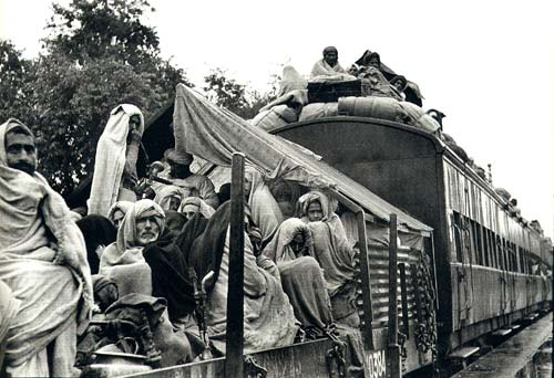 A refugee train, Punjab, 1947 (downloaded May 2004)